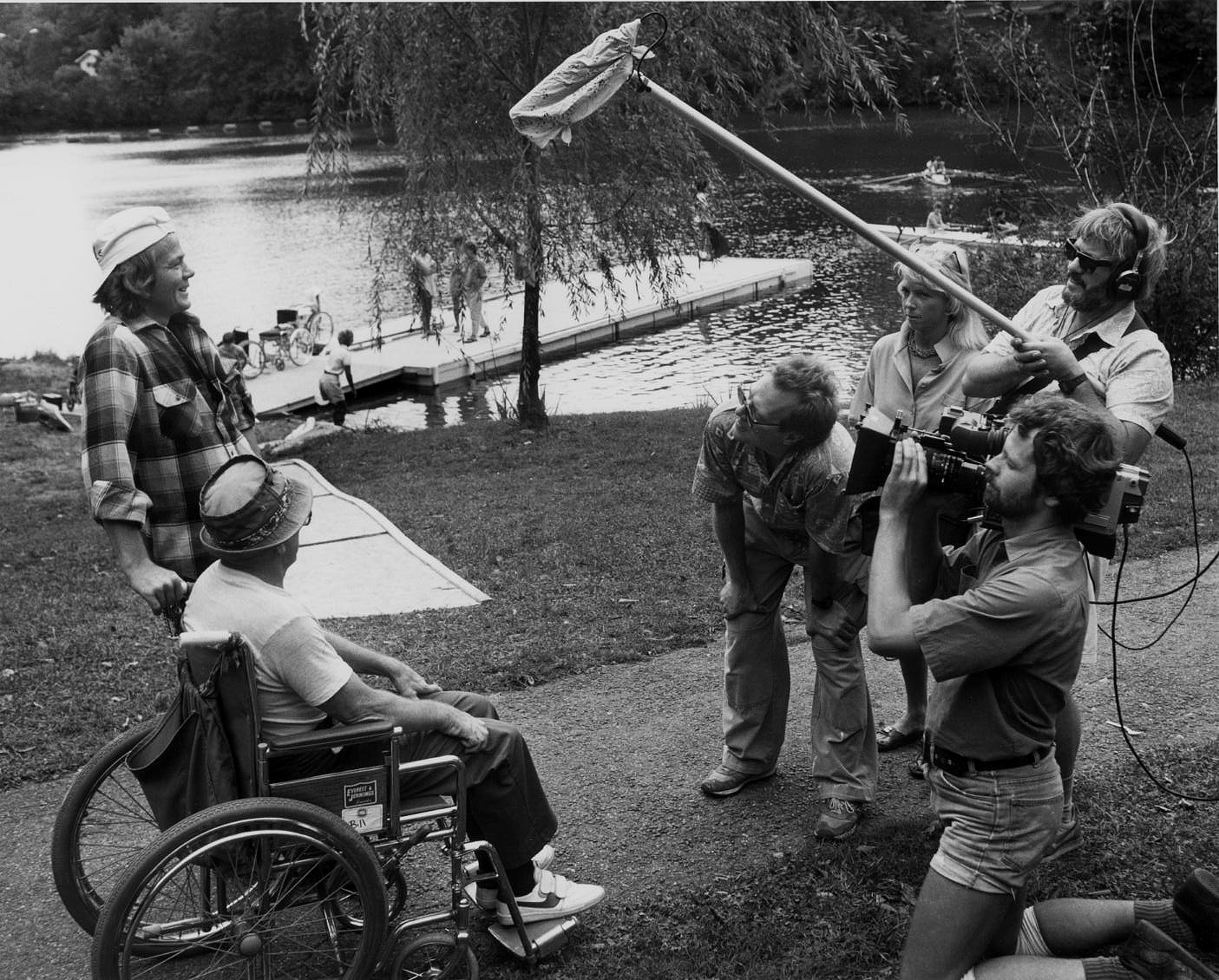 On location outside Baltimore, cameraman Jim Furrer, sound recordist Bill Porter, and director David Ryan interview participants in a rowing clinic, for the one-hour documentary "Rowing the Mainstream" produced by SAI Producions of Annapolis, Maryland